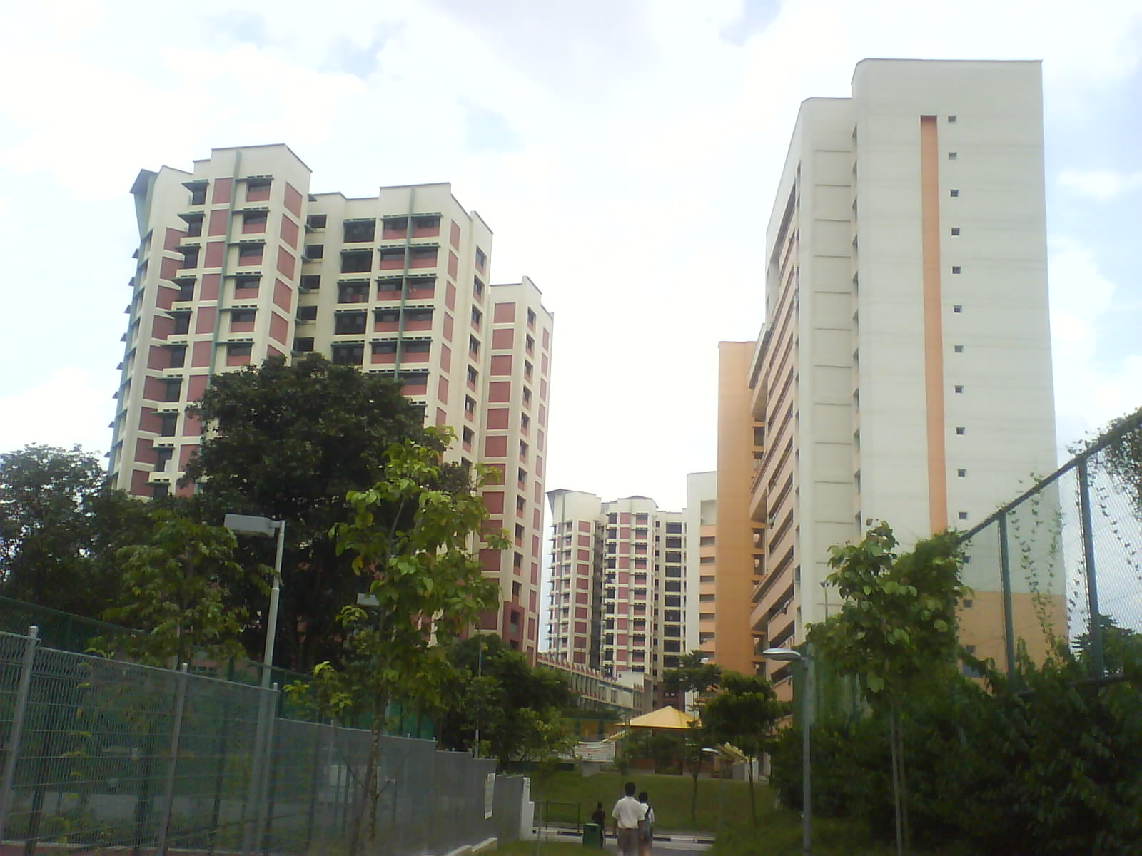 Taken by my phone, !